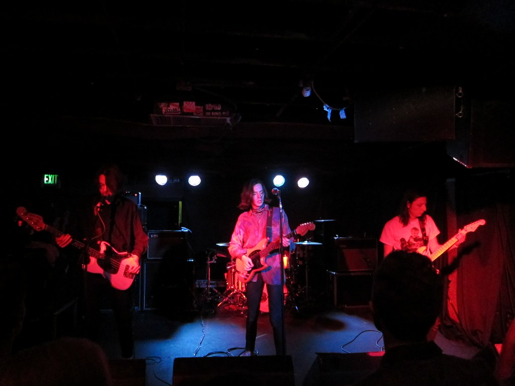 Peace in 2013